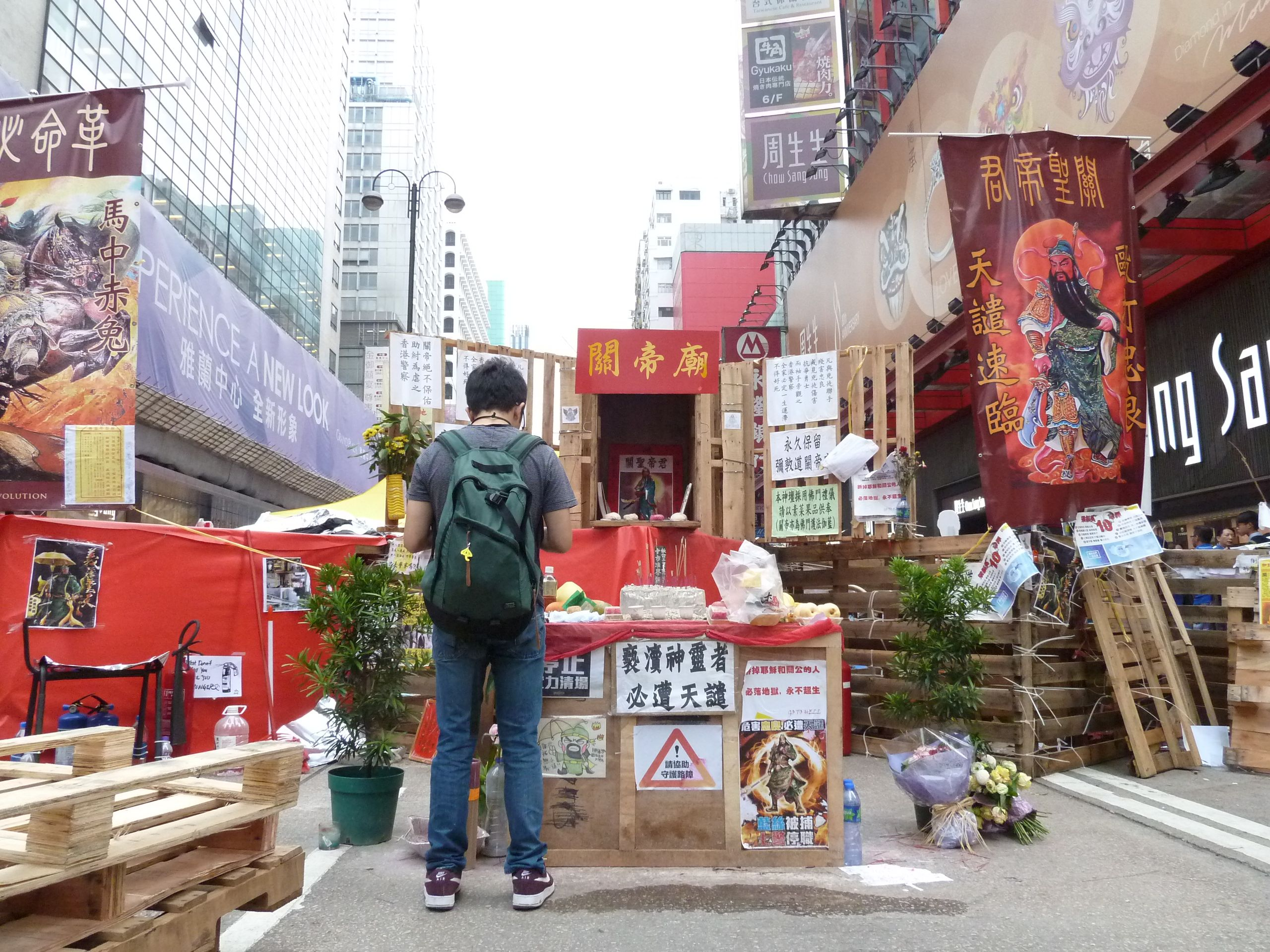 Shrine to Guan Yu at the Mong Kok protest site